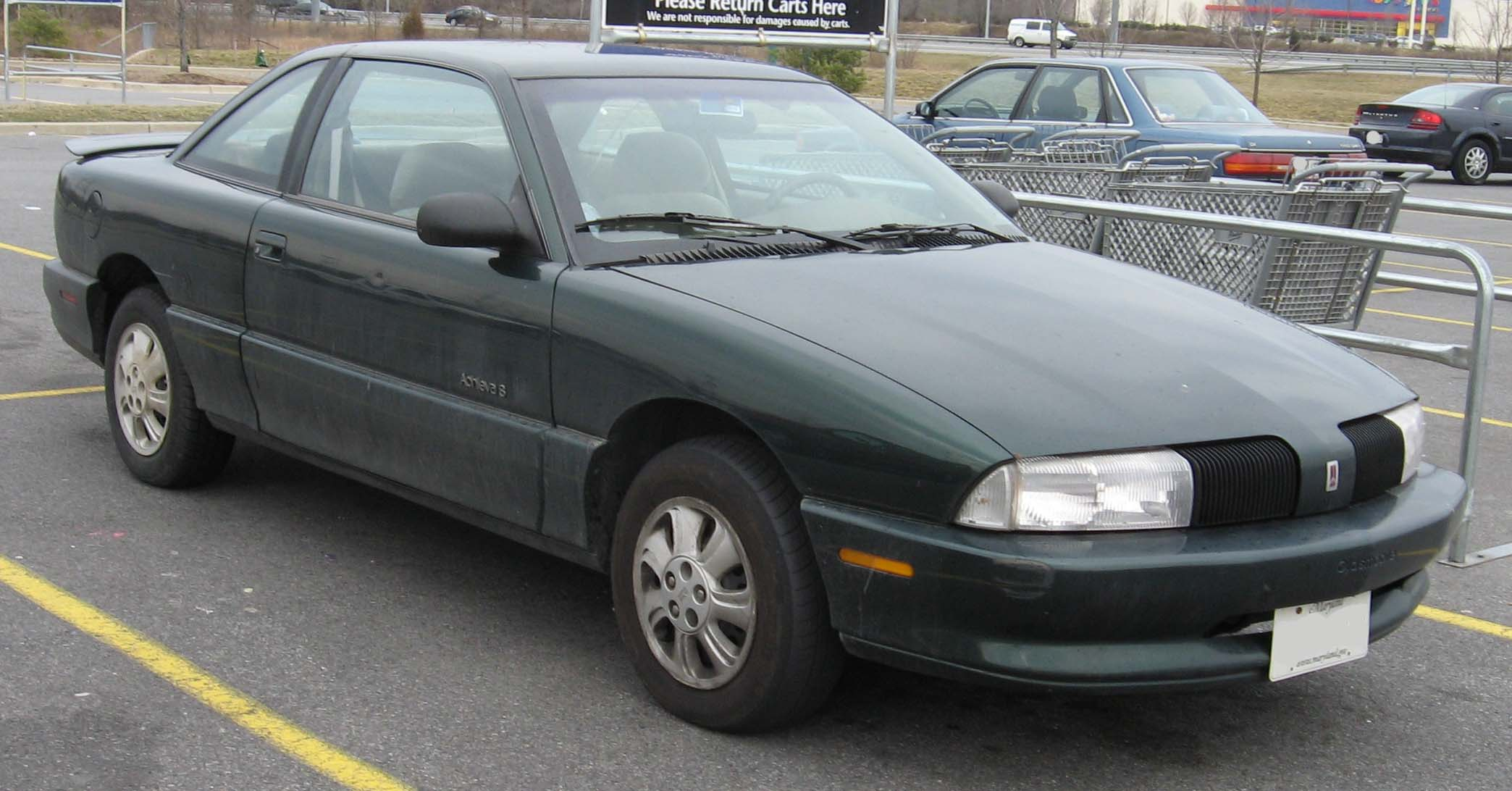 1992-1998 Oldsmobile Achieva photographed in USA.